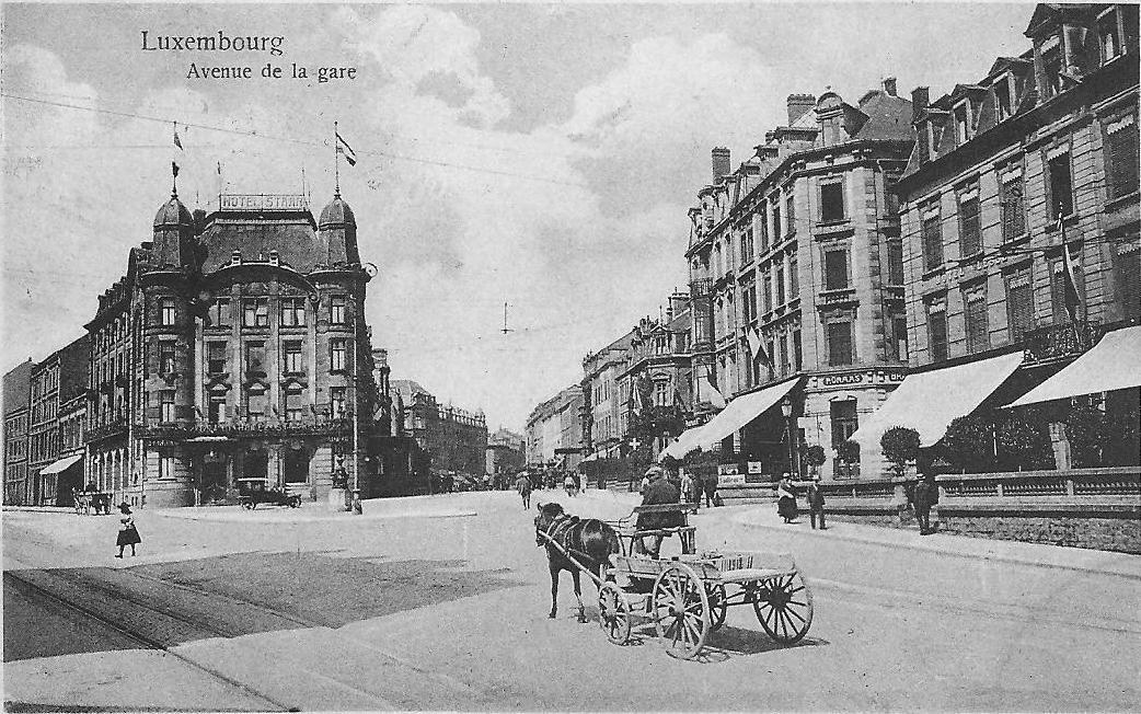 postcard of the street before Luxemburg railway station in 1920